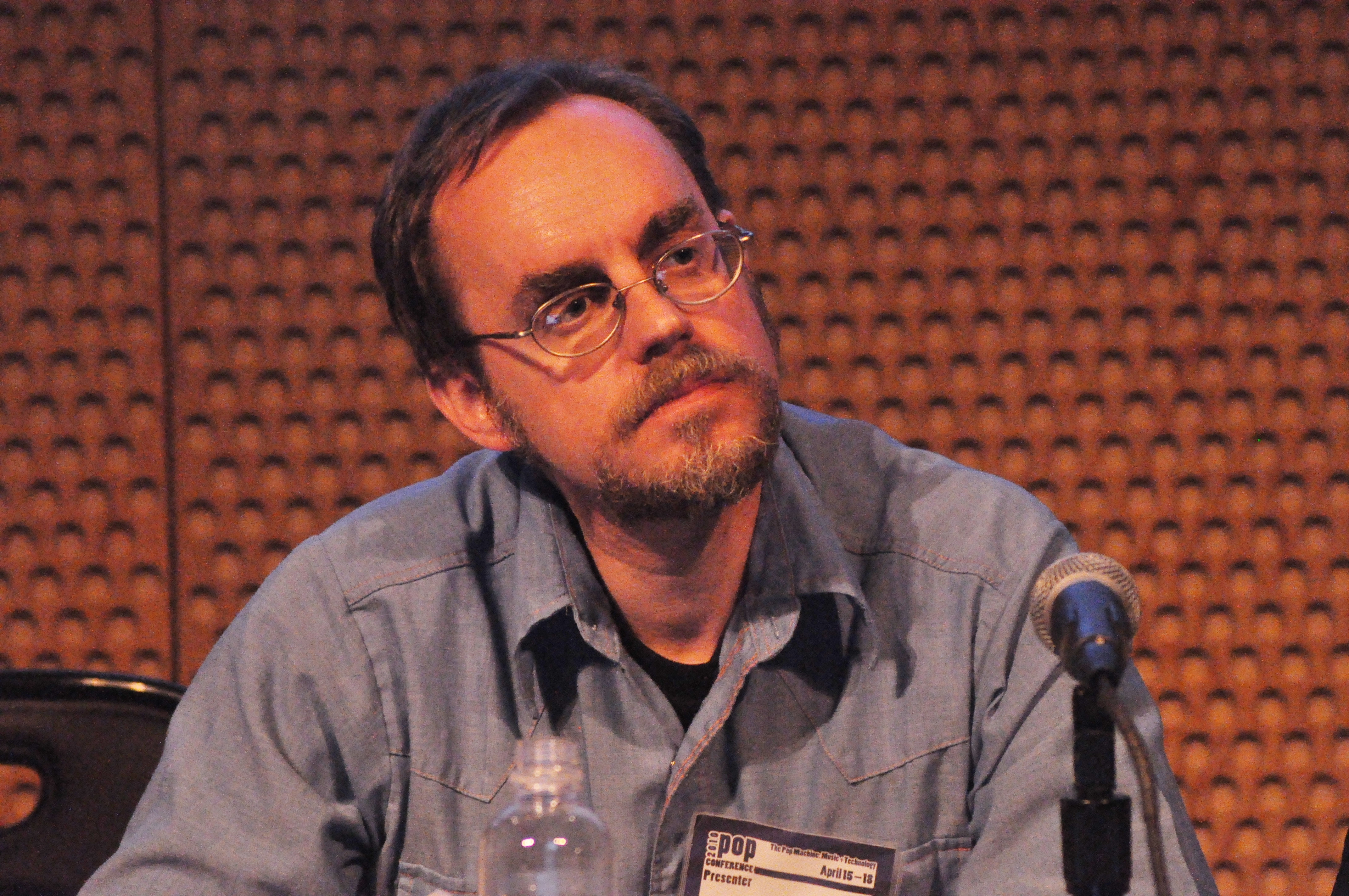 Music critic Chuck Eddy on the "Music in the '00s" panel, 2010 Pop Conference, EMPSFM, Seattle, Washington.